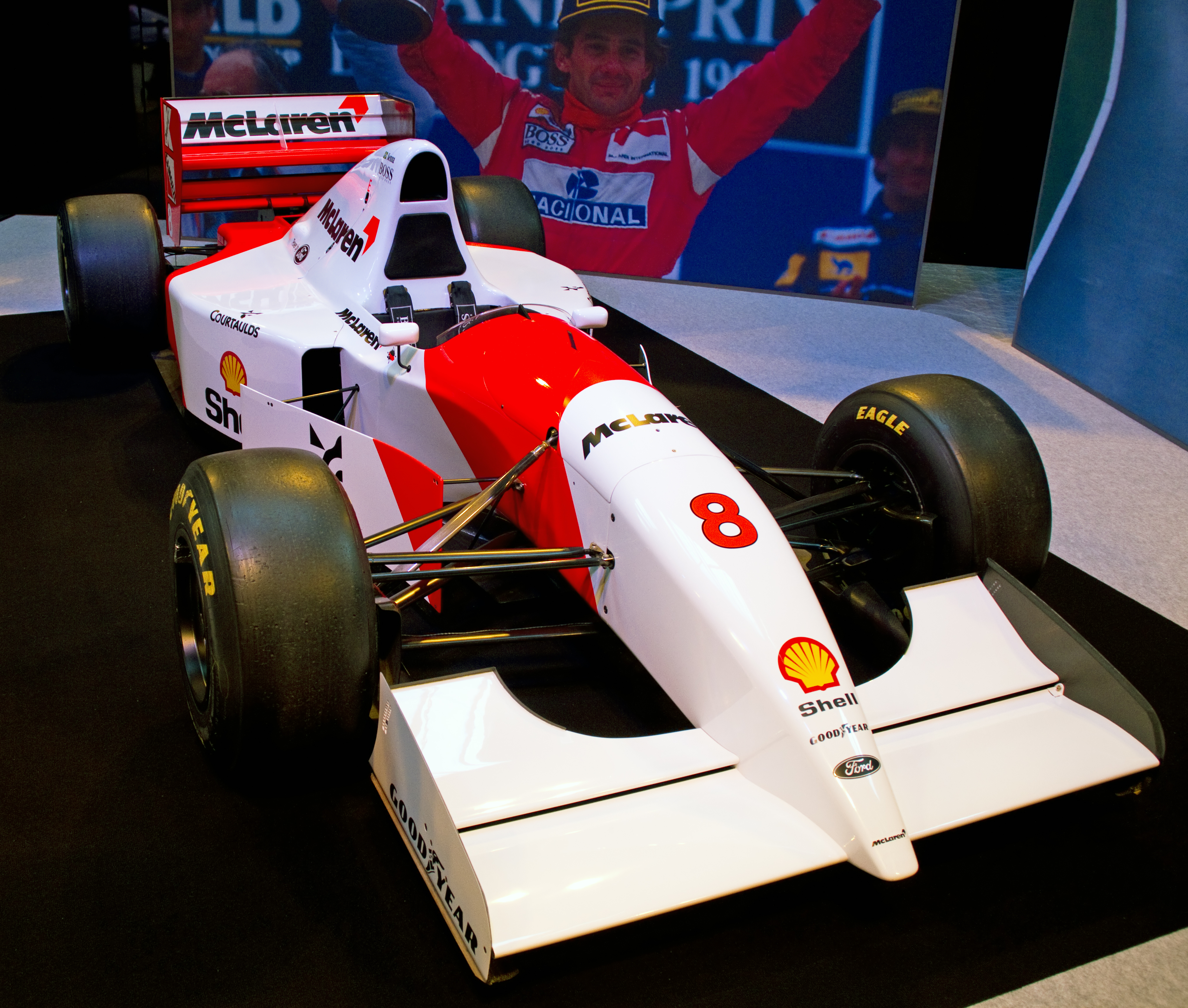 1993 McLaren MP4/8, at the 2012 Autosport International.